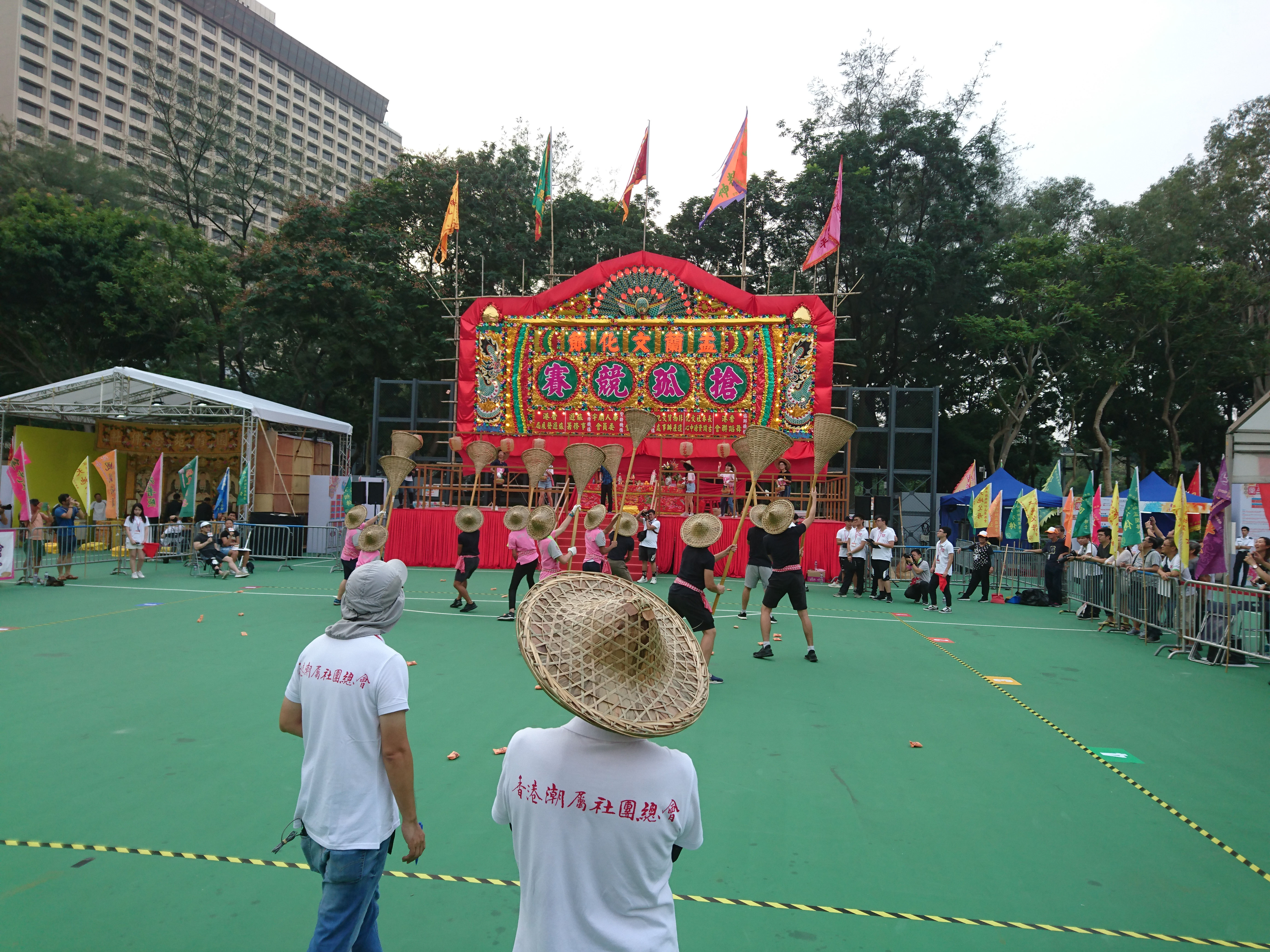 Yu Lan Cultural Festival 2018 Grabbing Competition